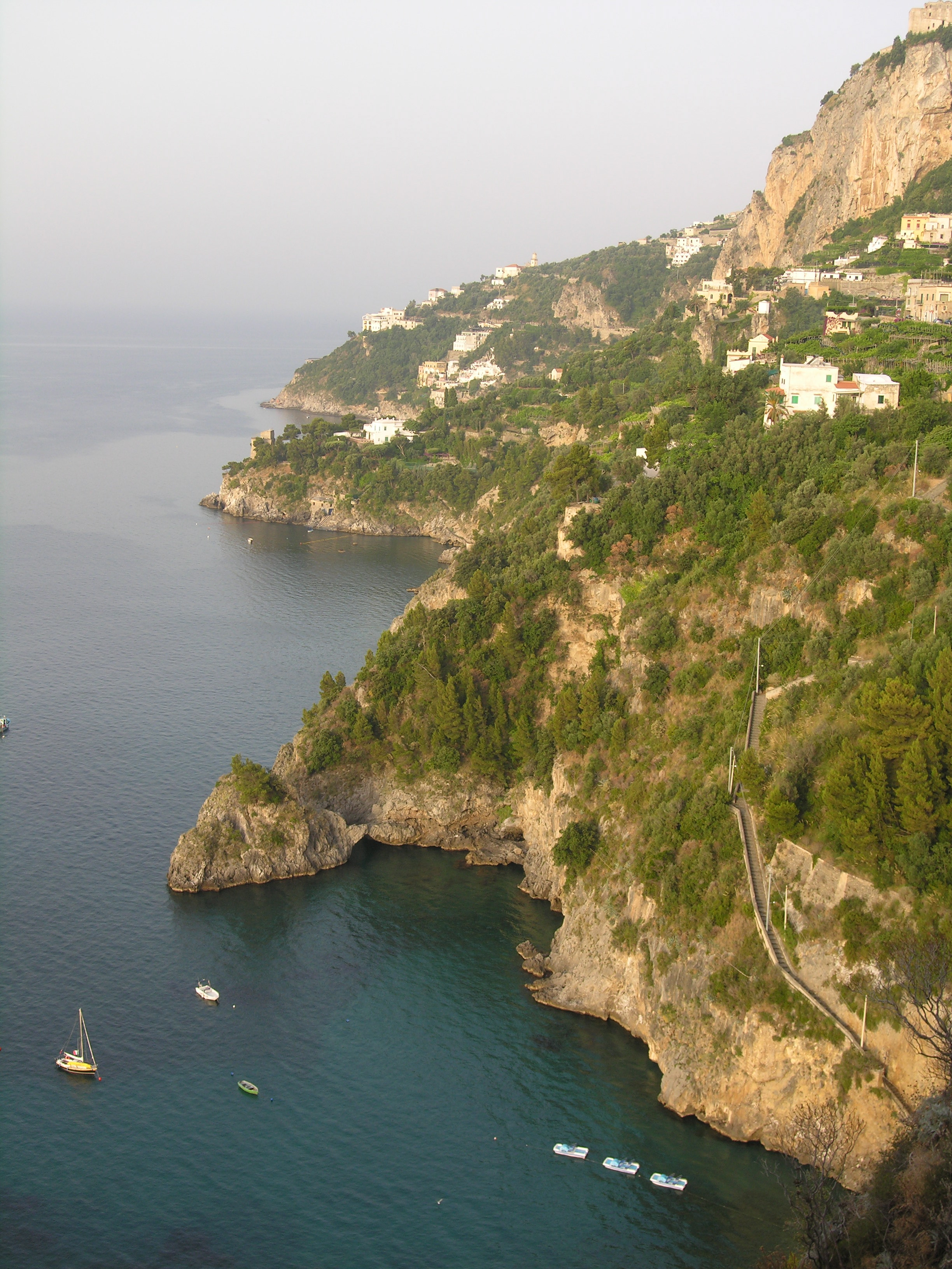 Amalfi coast, 1.5 km western from Amalfi, Italy, june 2006